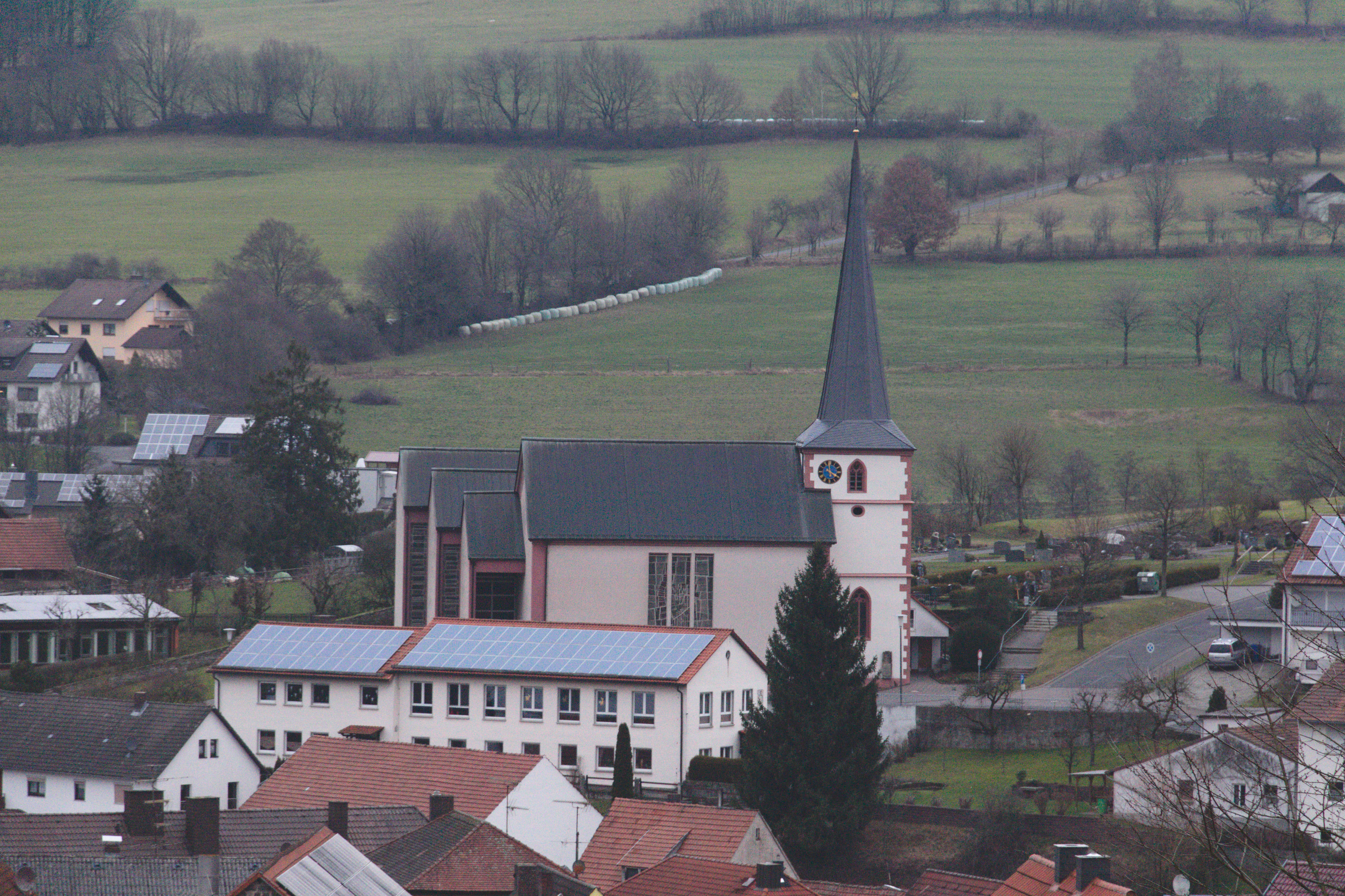 Catholic Church in Motten, Bavaria, Germany